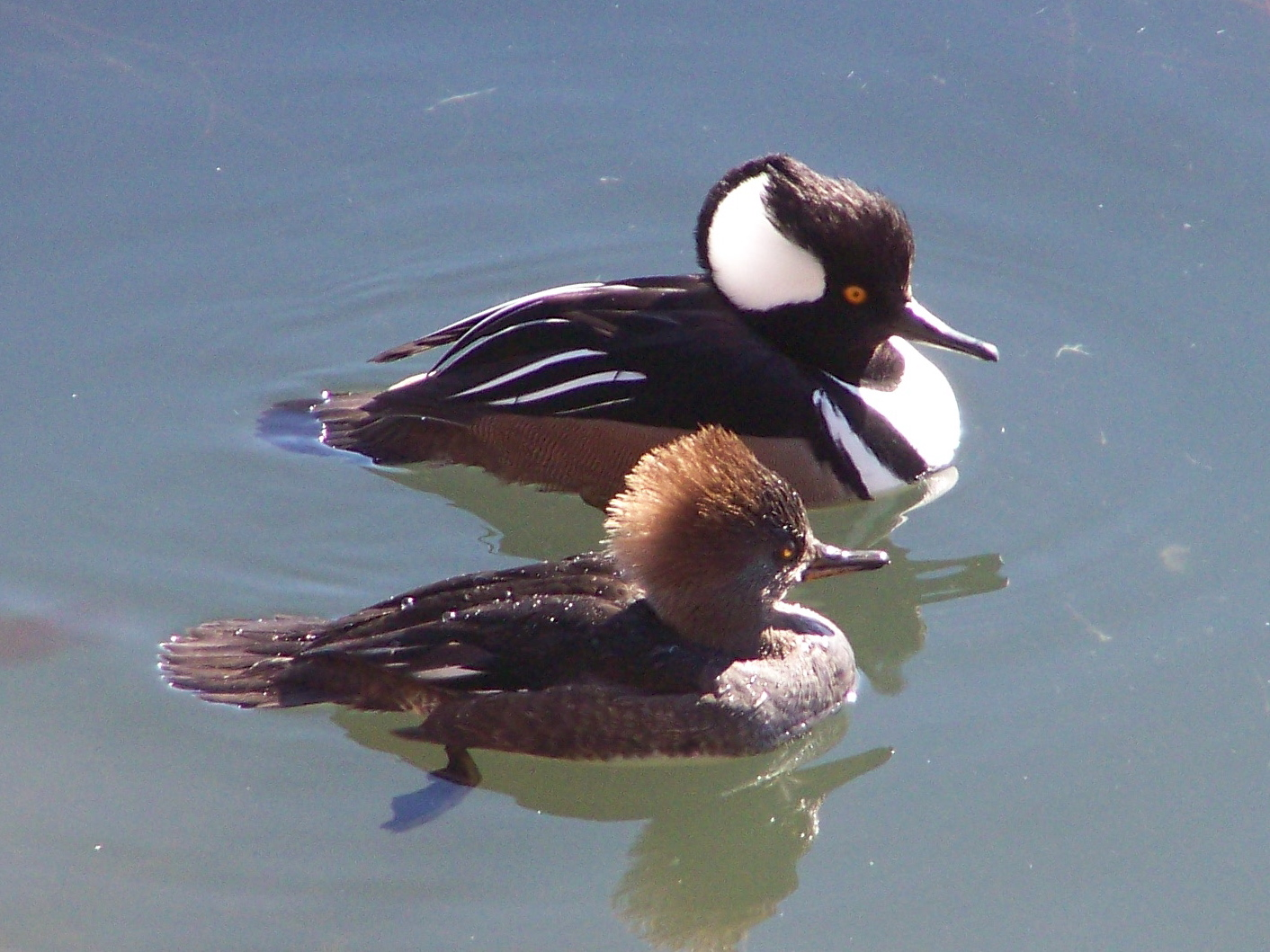 Hooded Merganser pair, female in front, male in back